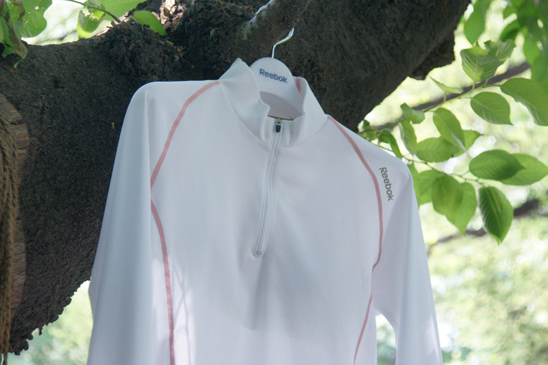 TAIKAN